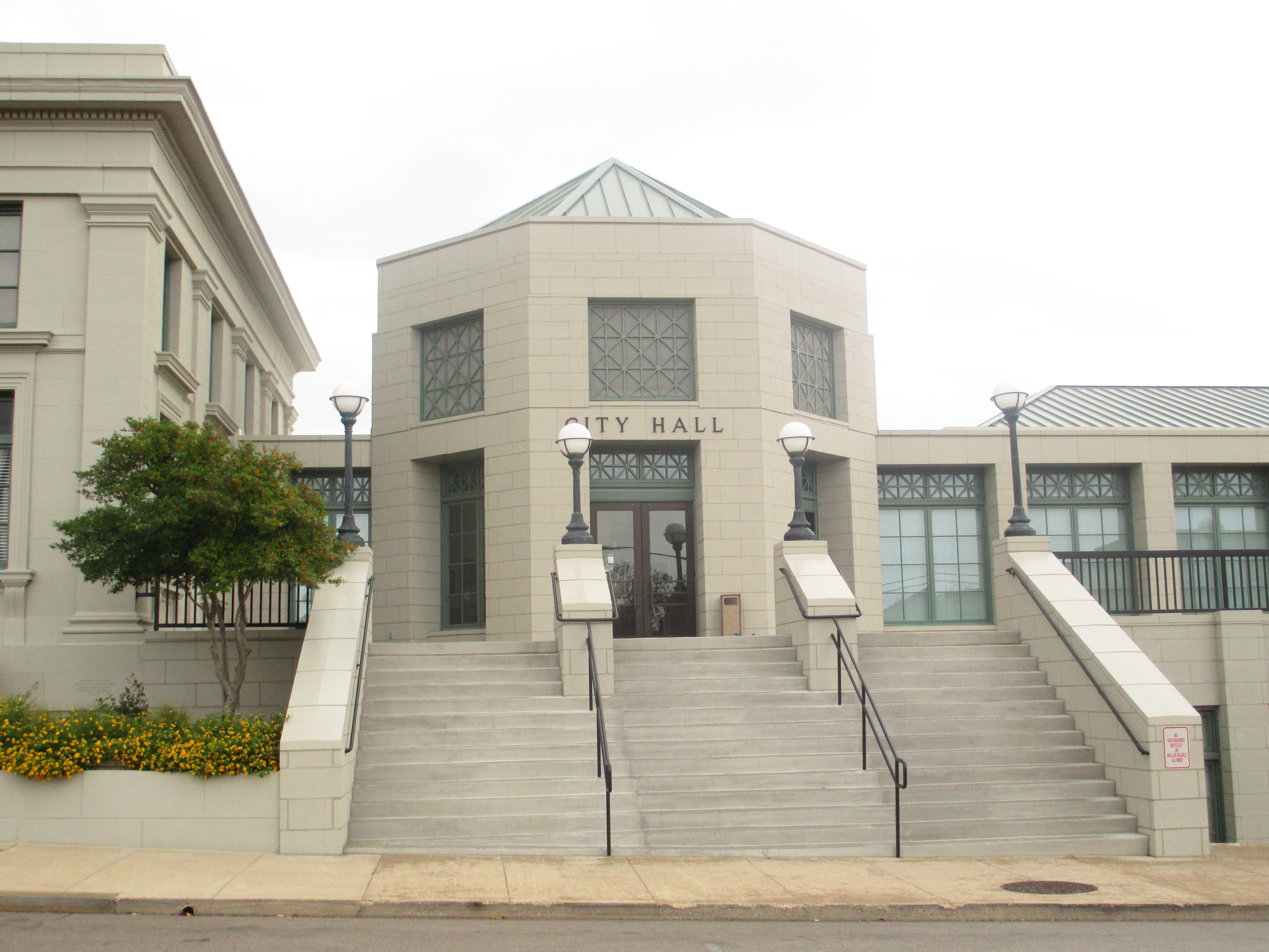 Revised, Waxahachie, TX, City Hall